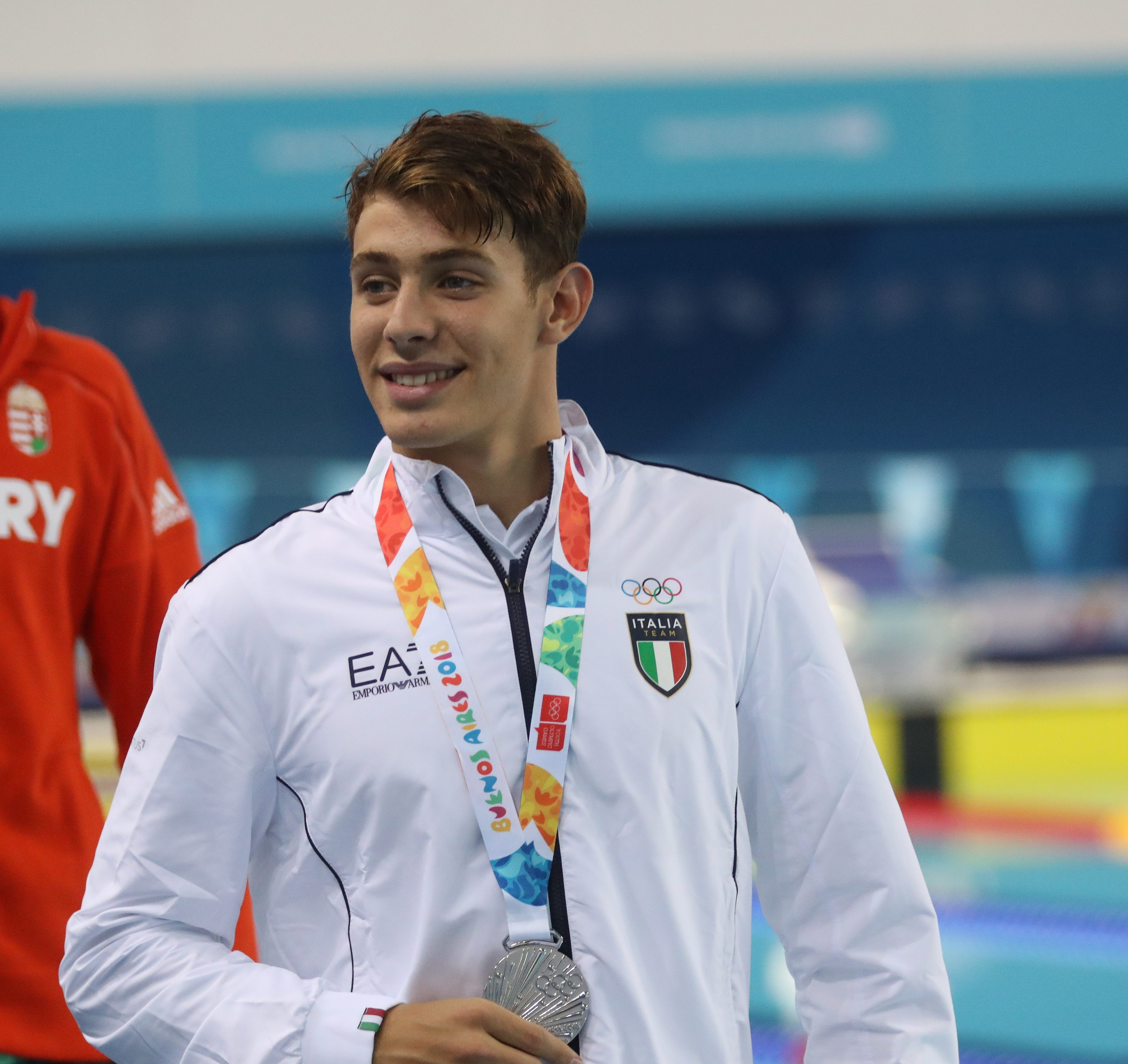 Swimming of boys' 400 m freestyle final at the 2018 Summer Youth Olympics in Buenos Aires on 7 October 2018.